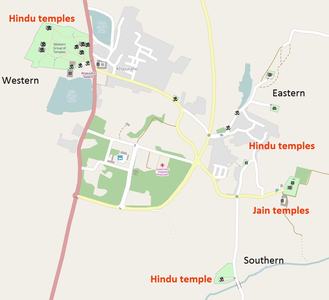 Khajuraho Group of Monuments, Madhya Pradesh India Distribution of temples, OpenStreet map This map may be incomplete, and may contain errors. Don't rely solely on it for navigation.